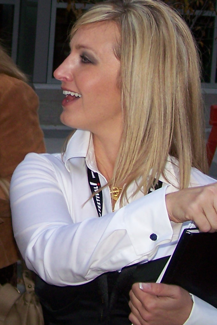 Jacqueline Dupuis is the Executive Director of the Calgary International Film Festival. This picture of her was taken outside the gala showing Walk All Over Me. The film was shown at the Uptown Stage at 612 8th Avenue SW, Calgary, Alberta, Canada. This picture has been cropped from the original.